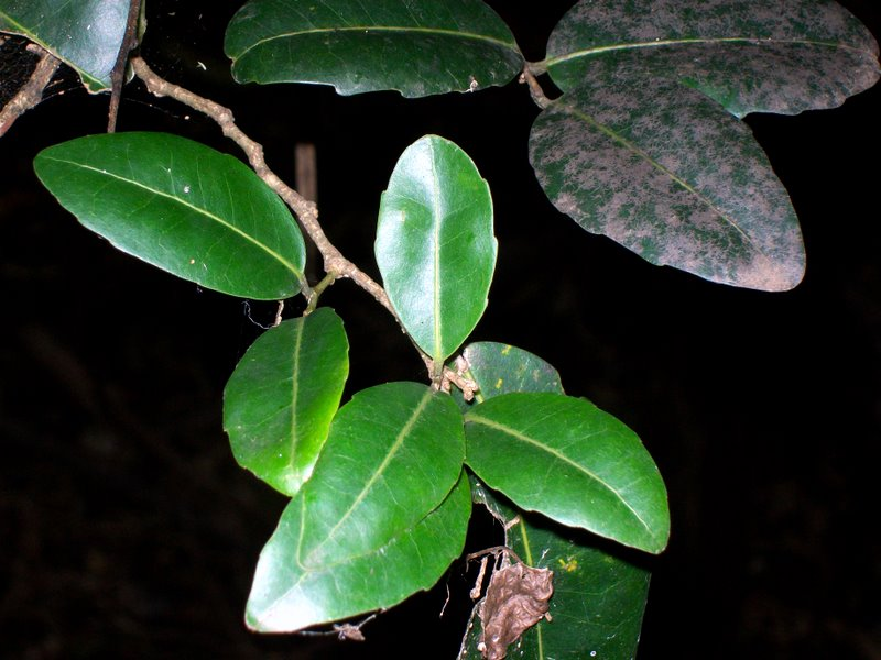 Drypetes deplanchei, leaves